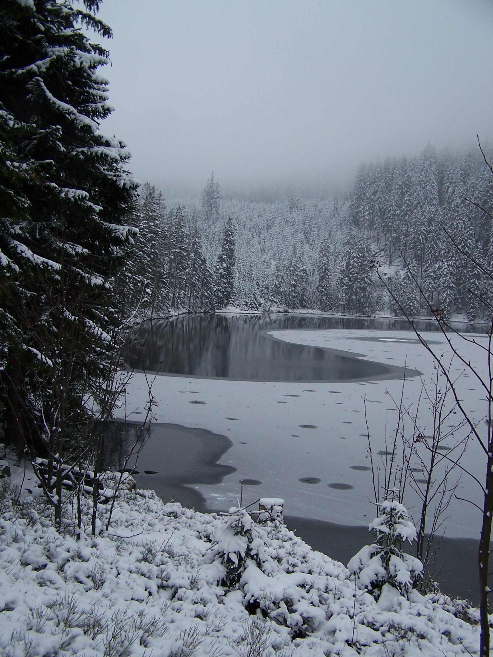 View on the Prášilské jezero to southestern.